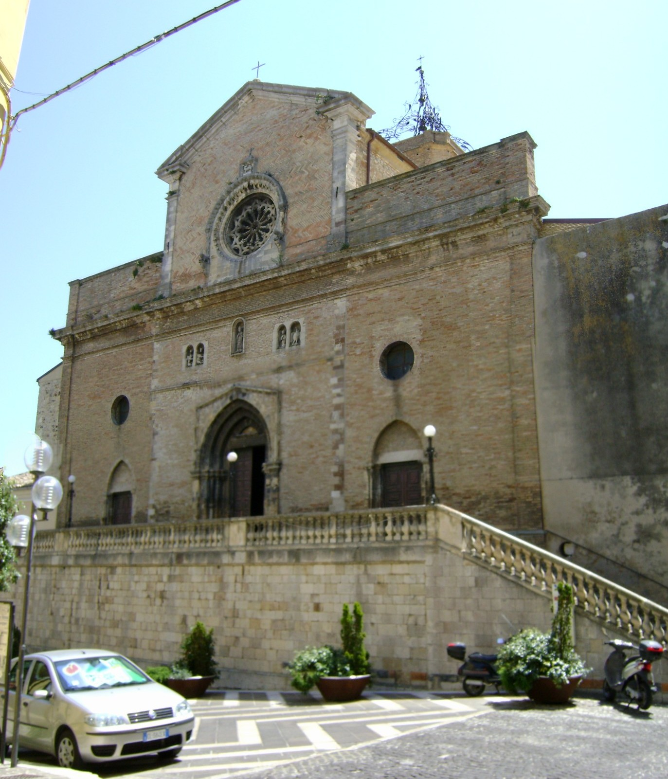 The cathedral of St. Leucio, Atessa, province of Chieti, Abruzzo